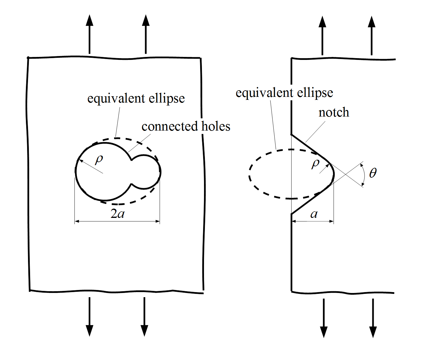 The concept of equivalent ellipse to approximate stress concentration factor